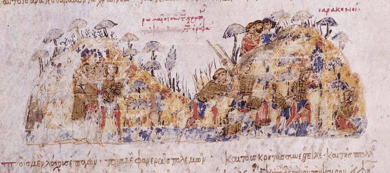 Byzantines under Ooryphas ambush and defeat the Cretan Saracens